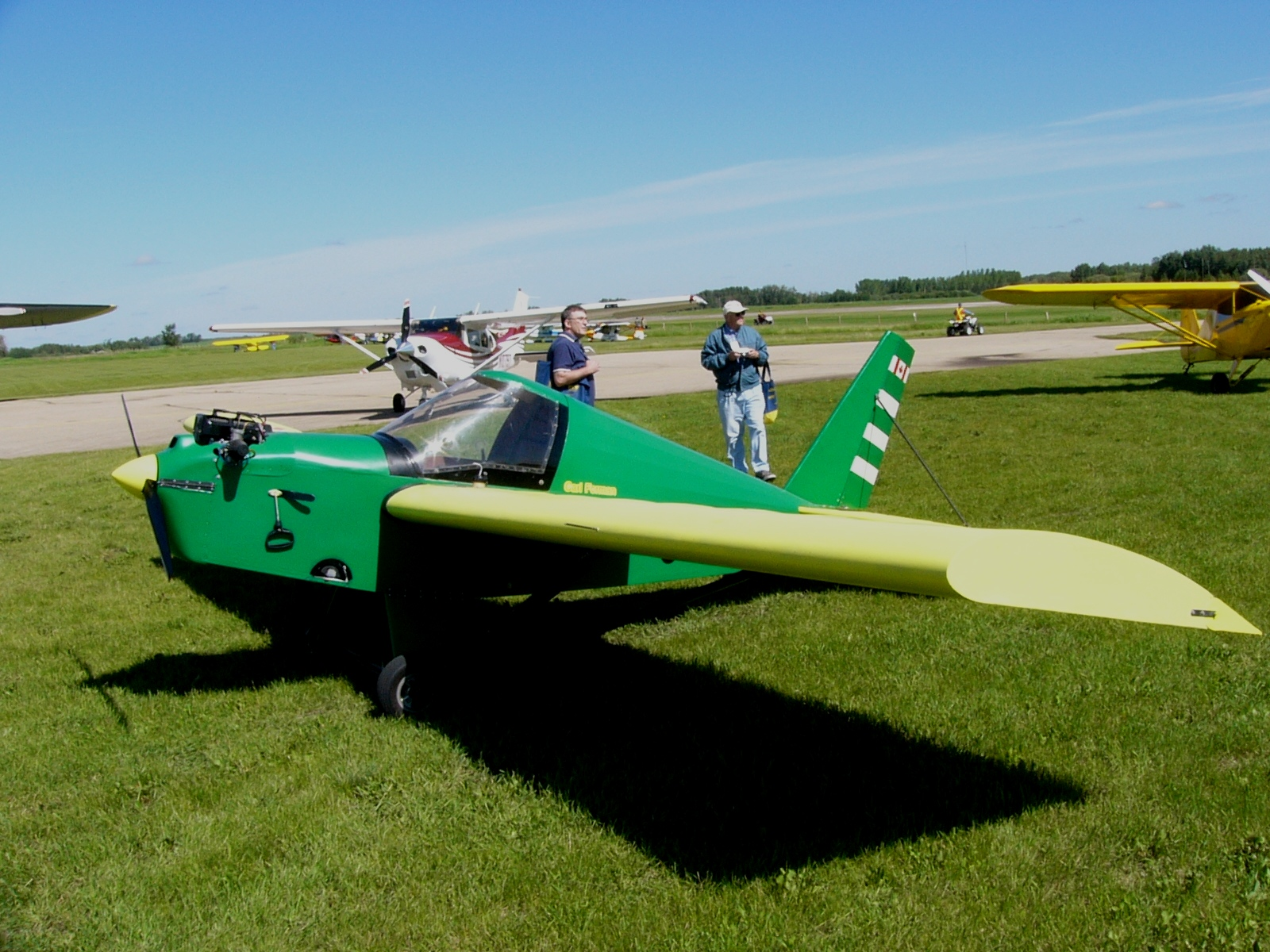 A TEAM Mini-MAX 1600R at the COPA Convention Wetaskiwin, Alberta, Canada